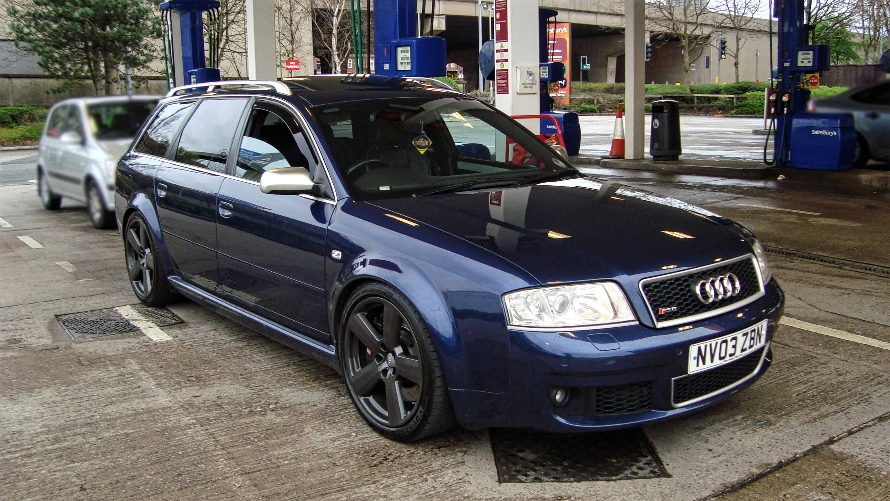 We was pumping our tyres up at the petrol station when this pulled up next to us, this is my favourite shape of RS6, I think it's the best looking and sounds better because it has a V8